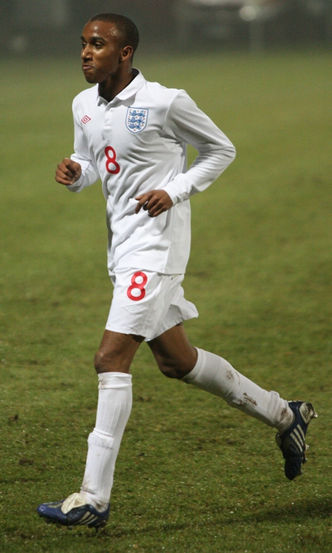 Fabian Delph playing for England U21 national team.